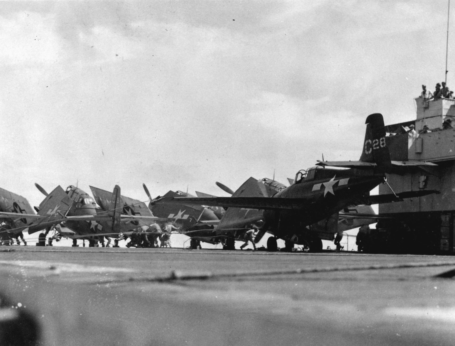 A U.S. Navy General Mortors FM-2 Wildcat of Composite Squadron 11 (VC-11) slams into the barricade during flight operations on board the escort carrier USS Nehenta Bay (CVE-74) on 21 January 1945.